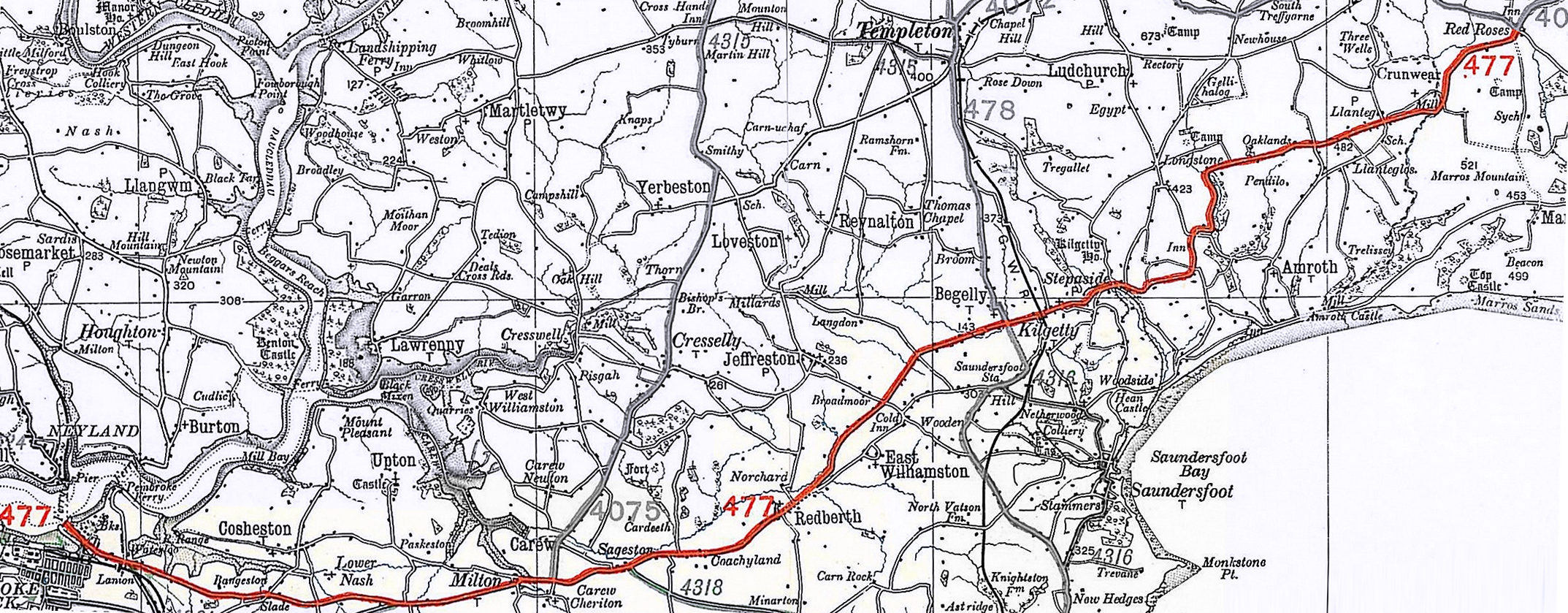 Original route of the A477 road as shown in the 1923 Ordnance Survey Ministry of Transport road map. This image has been modified from the original scan to highlight the A477 road by converting other roads from colour to greyscale.